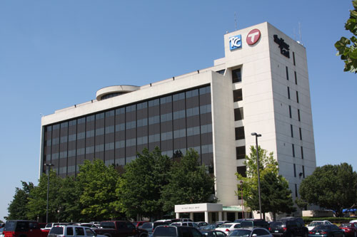 Tulsa Tech - Skyline